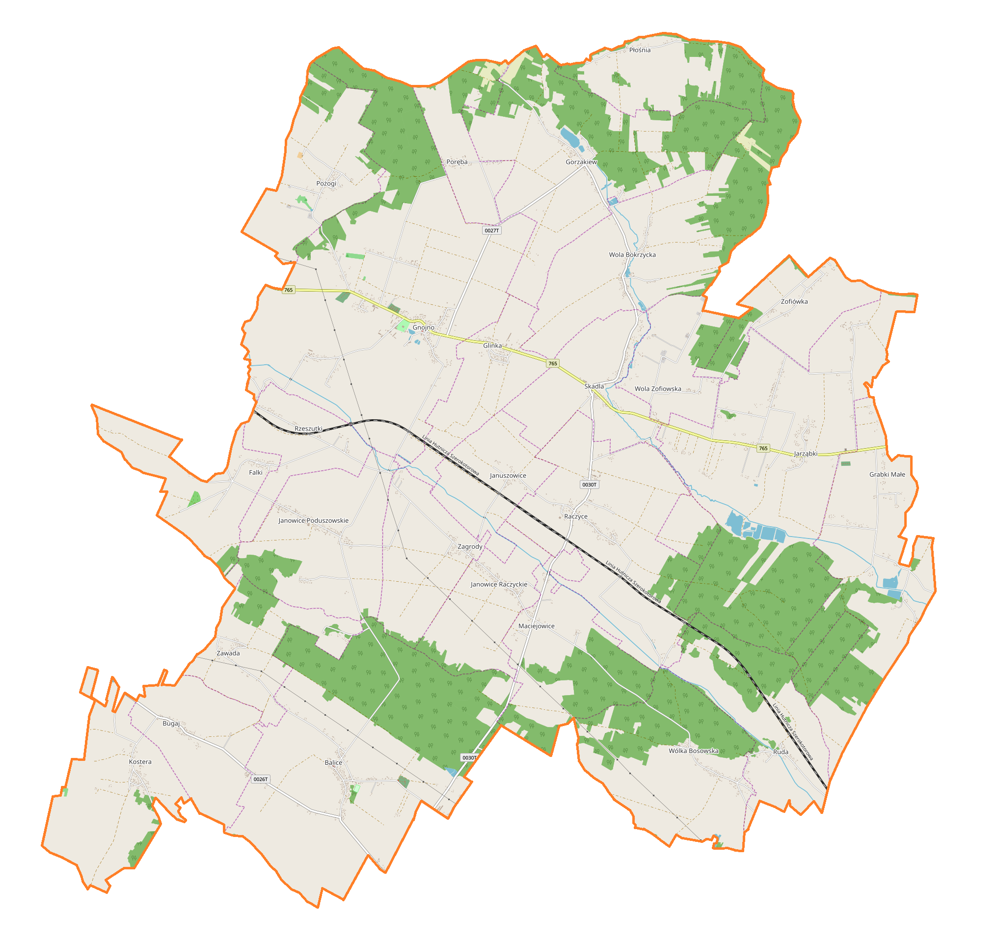 Location map